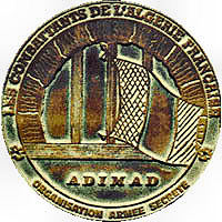 OAS veterans association medal